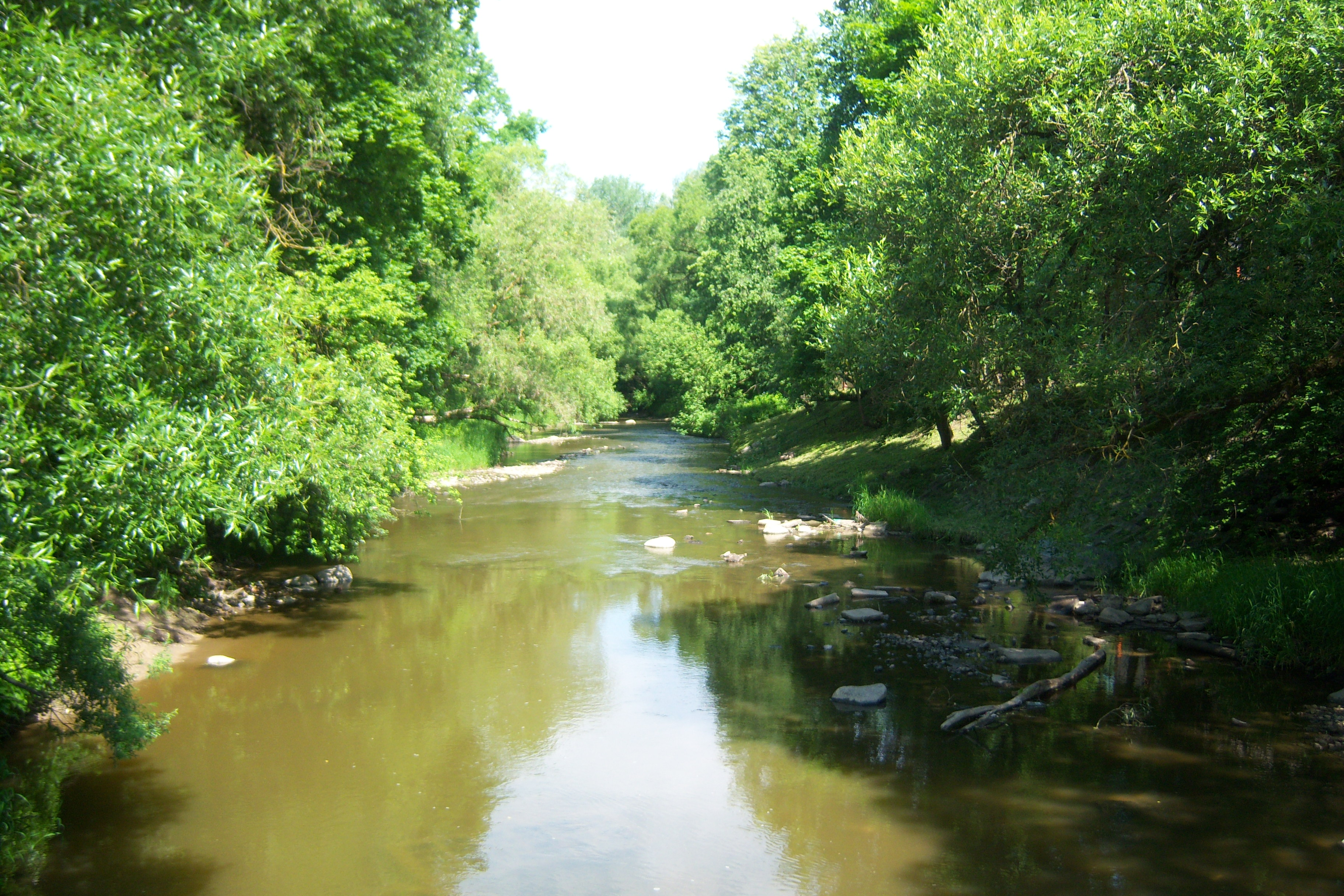 Jiesia River in Rokai, Kaunas. Lithuania